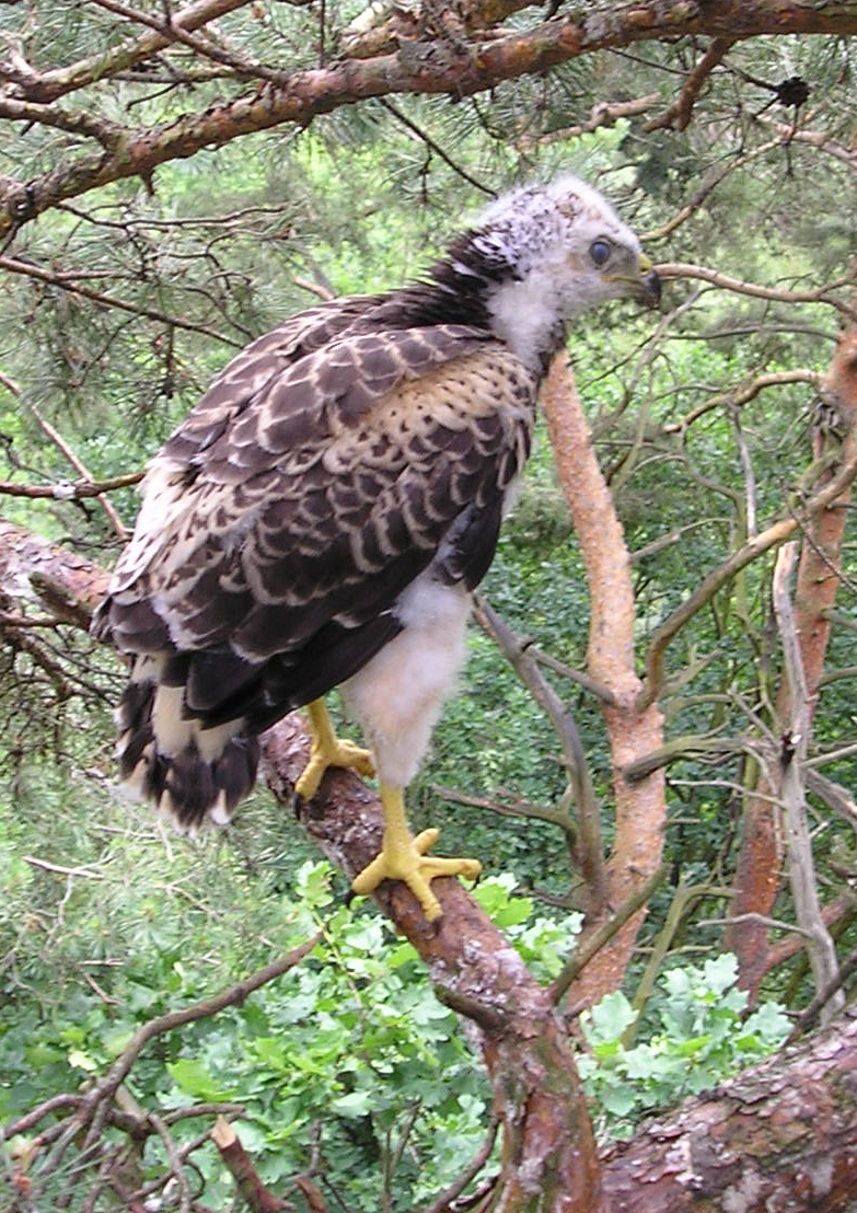 Young Common Buzzard next to his nest, Berlin